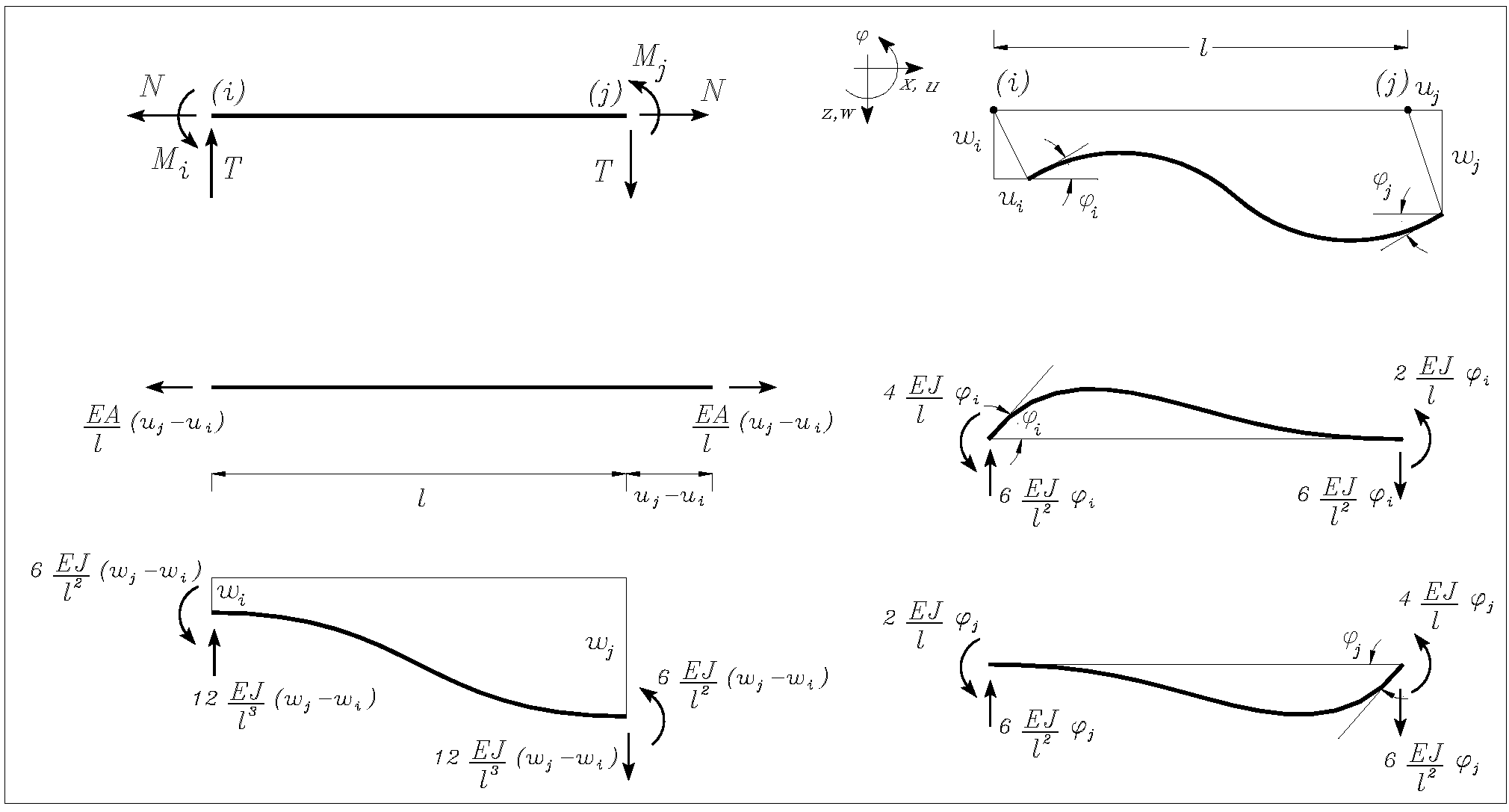 Stiffness coefficients of a beam